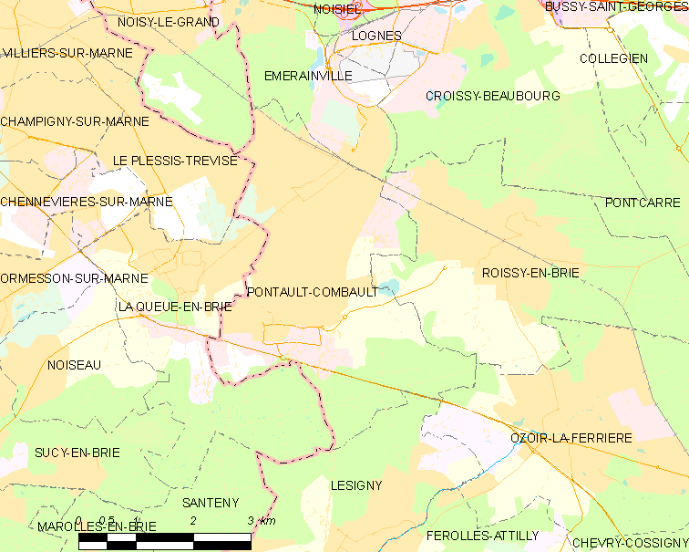 Map of French municipality Pontault-Combault